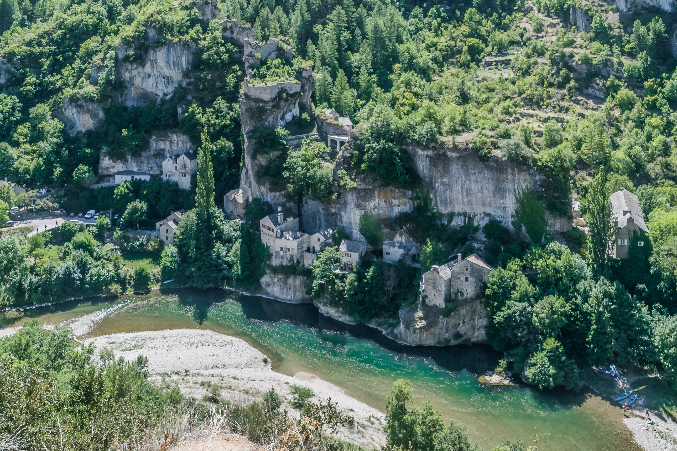 View of Castelbouc, commune of Sainte-Enimie, Lozère, France